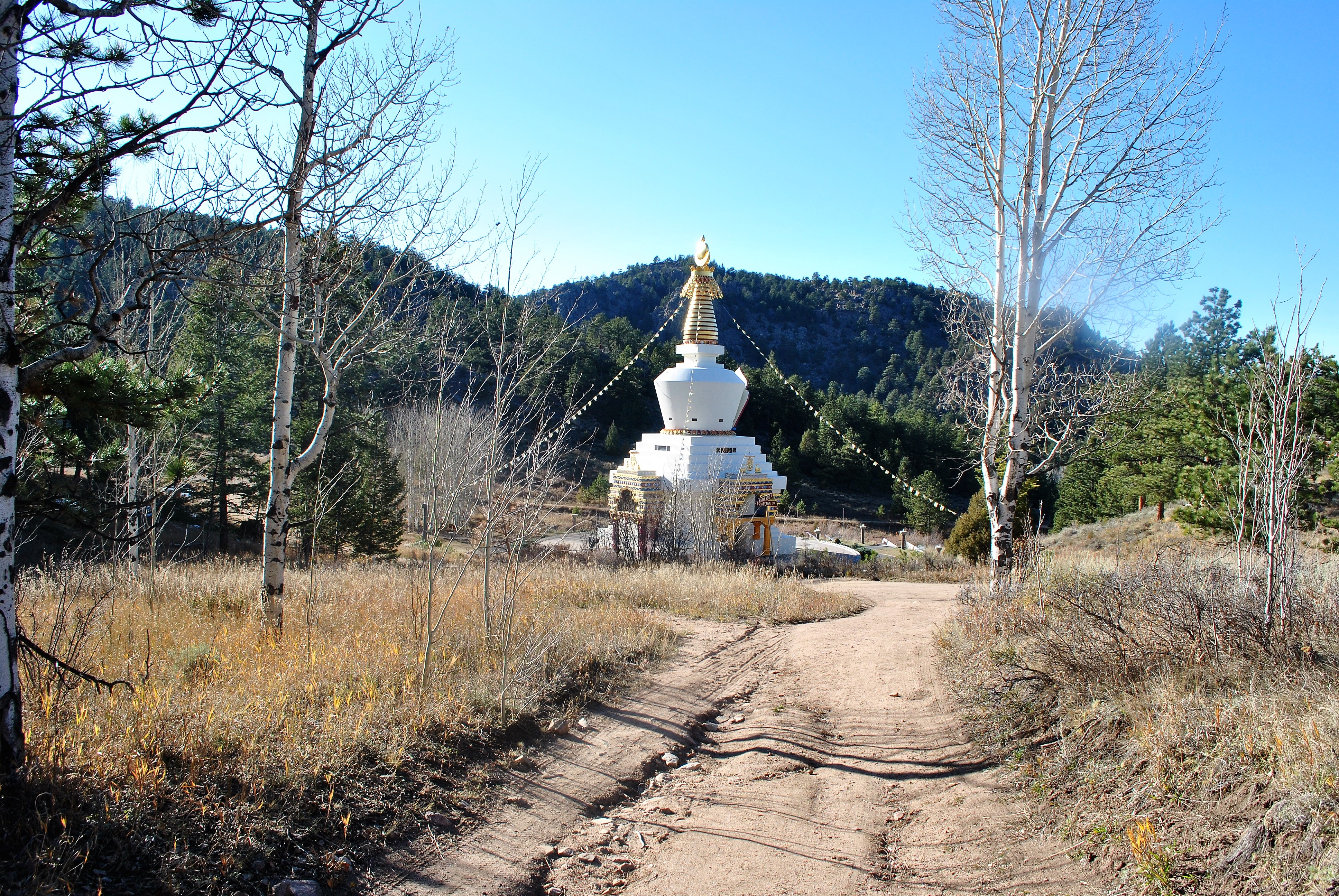 Image originally published in Queer Places: Retracing the Steps of LGBTQ people around the World Authored by Elisa Rolle